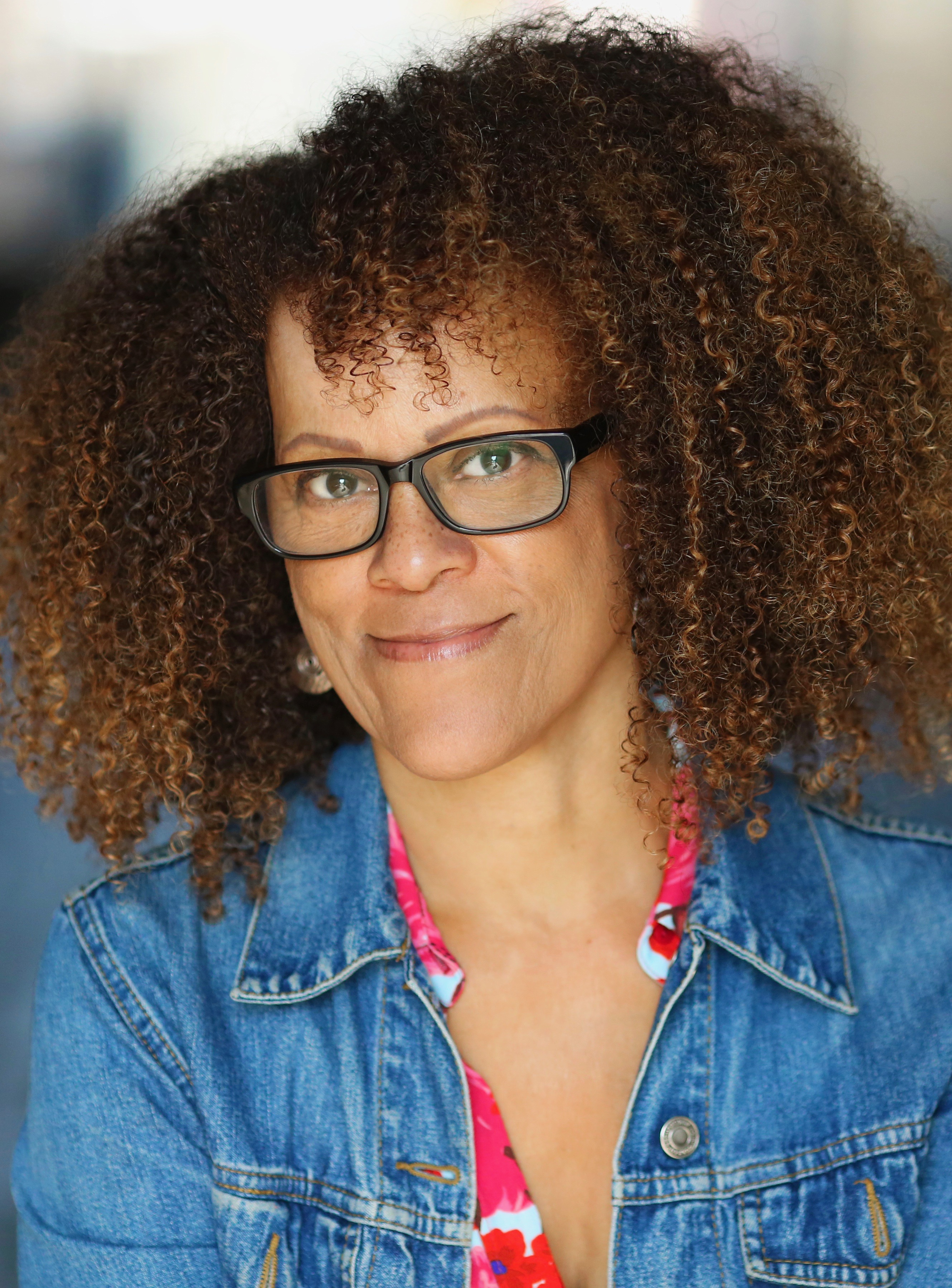 Bernardine Evaristo 2018 Credit Jennie Scott USE